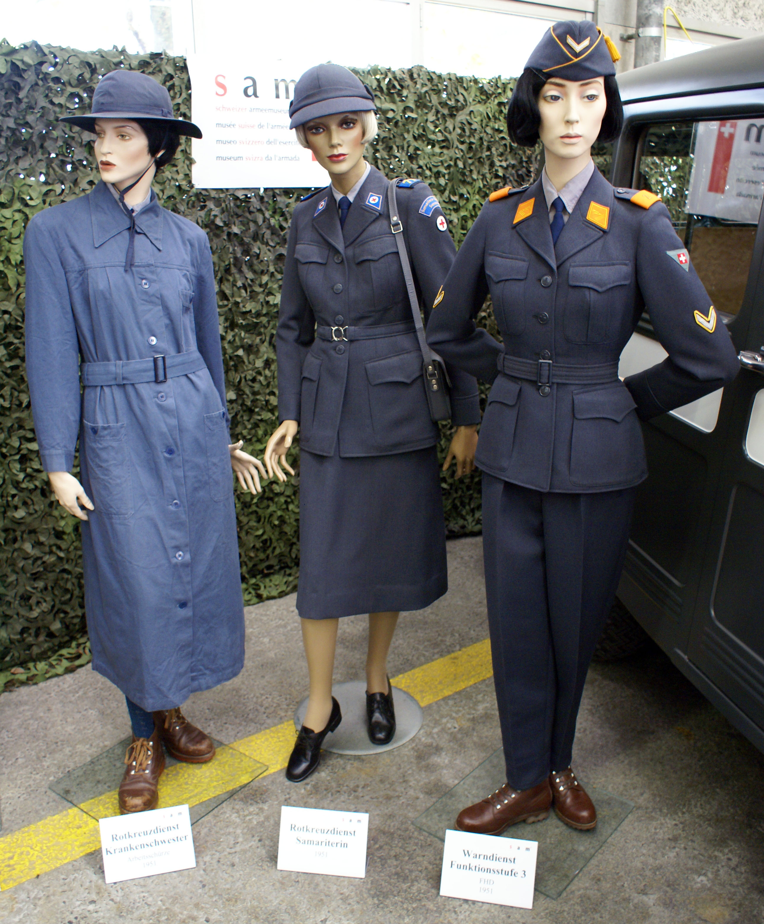 Swiss Army. Women's aid service uniforms of 1951. From left to right: red cross service nurse, red cross service samaritan, alert service function level 3 (officer, platoon commander). Swiss Army Museum.